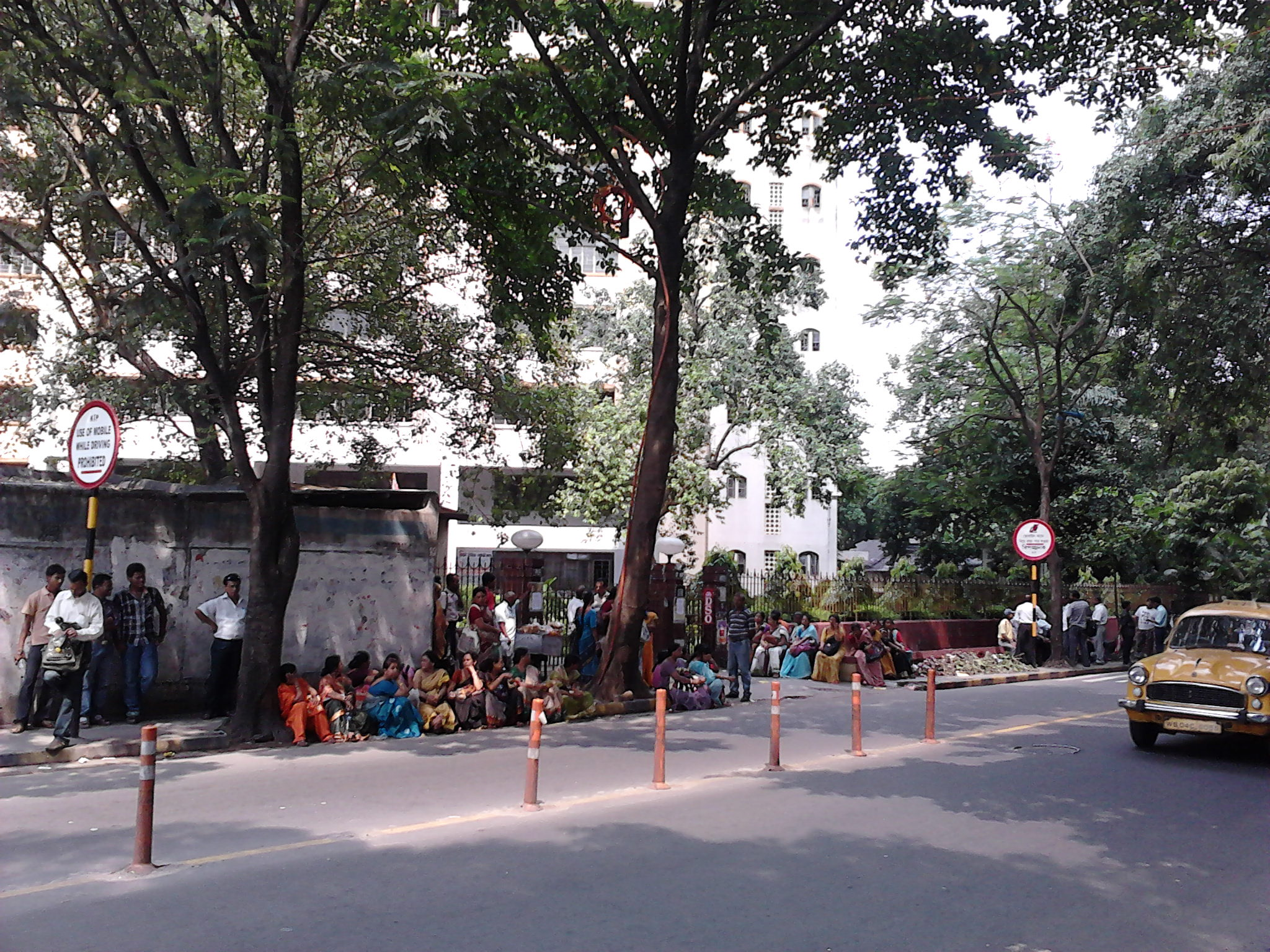 Alipore Campus of University of Calcutta